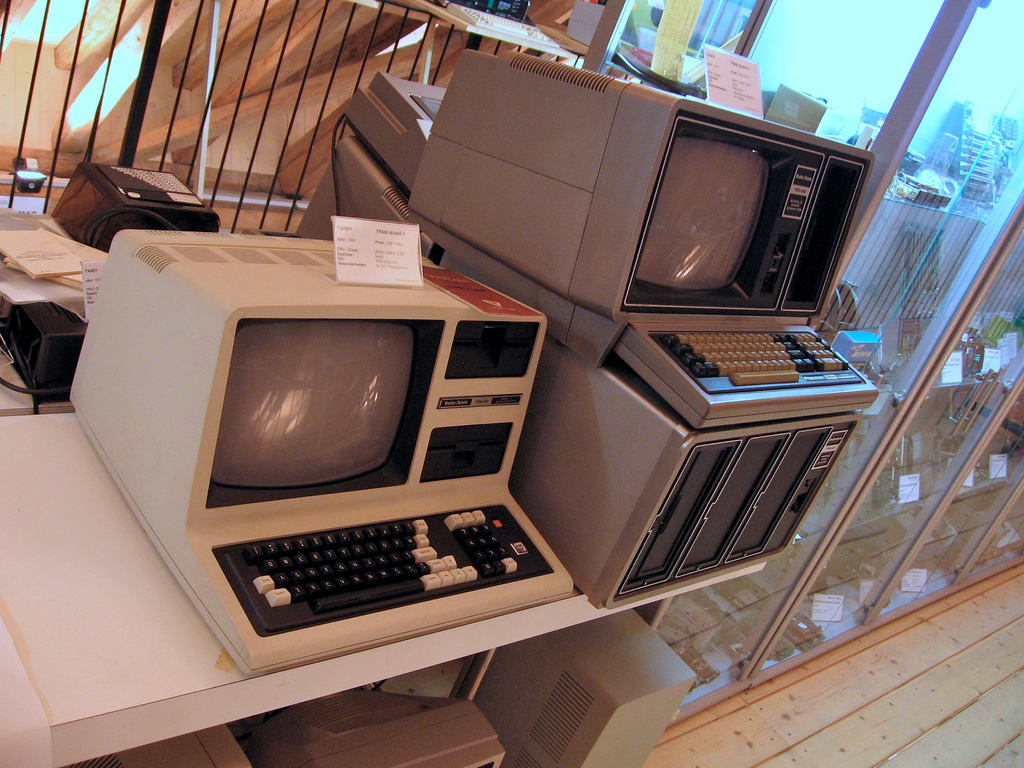 A TRS-80 Model IV and a TRS-80 Model II side by side.